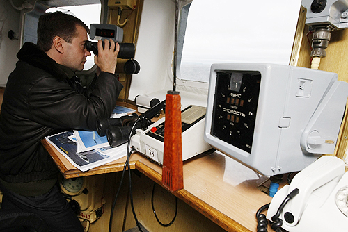 BARENTS SEA. On board the Aircraft Carrier Admiral Kuznetsov.